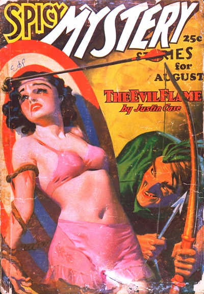 Cover of the pulp magazine Spicy Mystery Stories (August 1936, vol. 3, no. 4) featuring "The Evil Flame" by Justin Case.